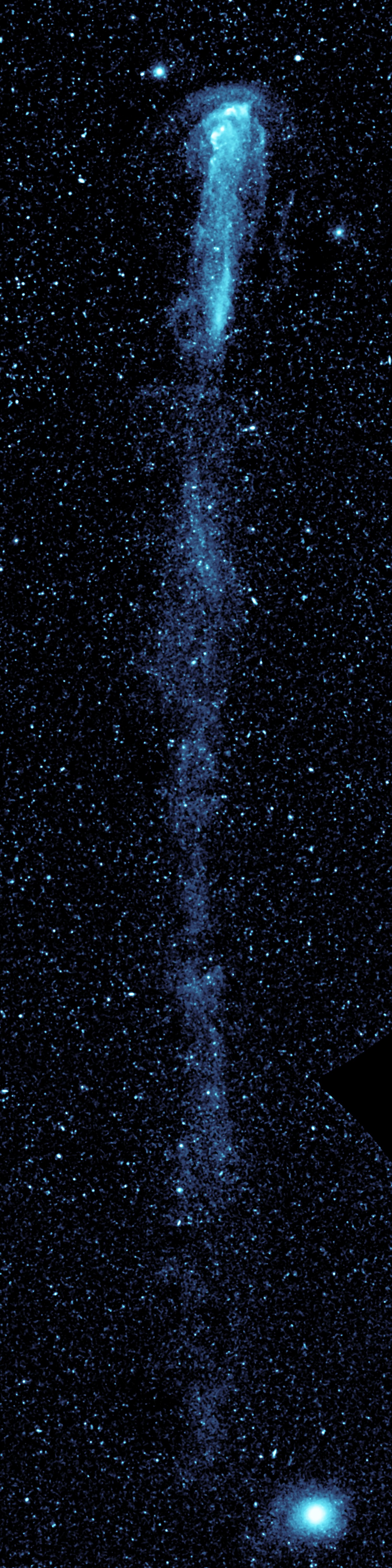 NASA GALEX's ultraviolet mosaic of Mira A's bow shock and tail. Made vertical and saved as jpeg using GIMP.